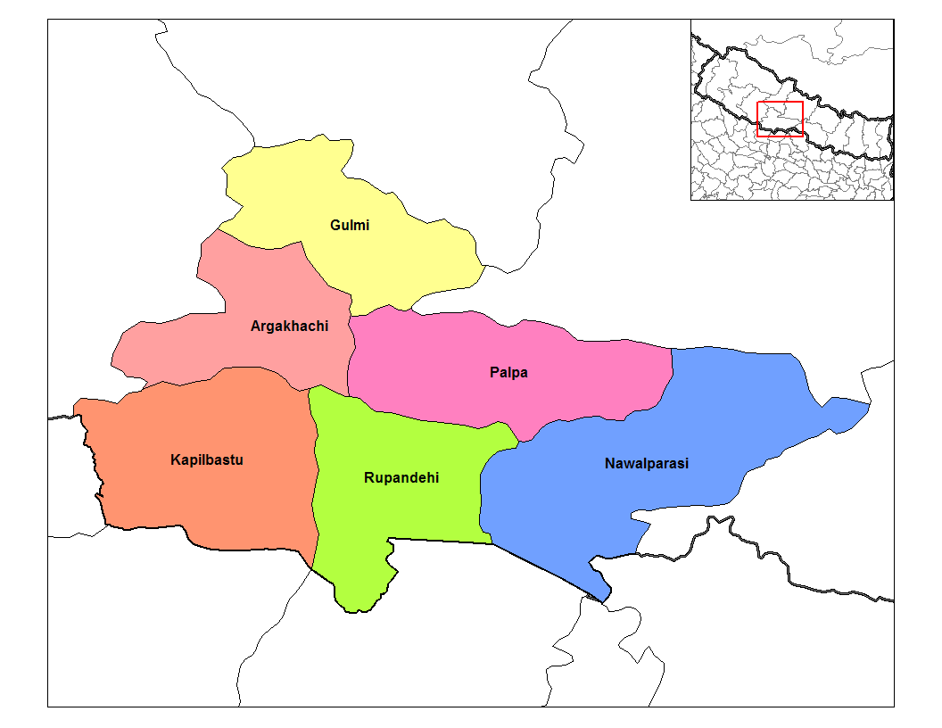 Map of the districts of Lumbini Zone (wp-EN) in Nepal. Created by Rarelibra 19:31, 18 September 2006 (UTC) for public domain use, using MapInfo Professional v8.5 and various mapping resources.